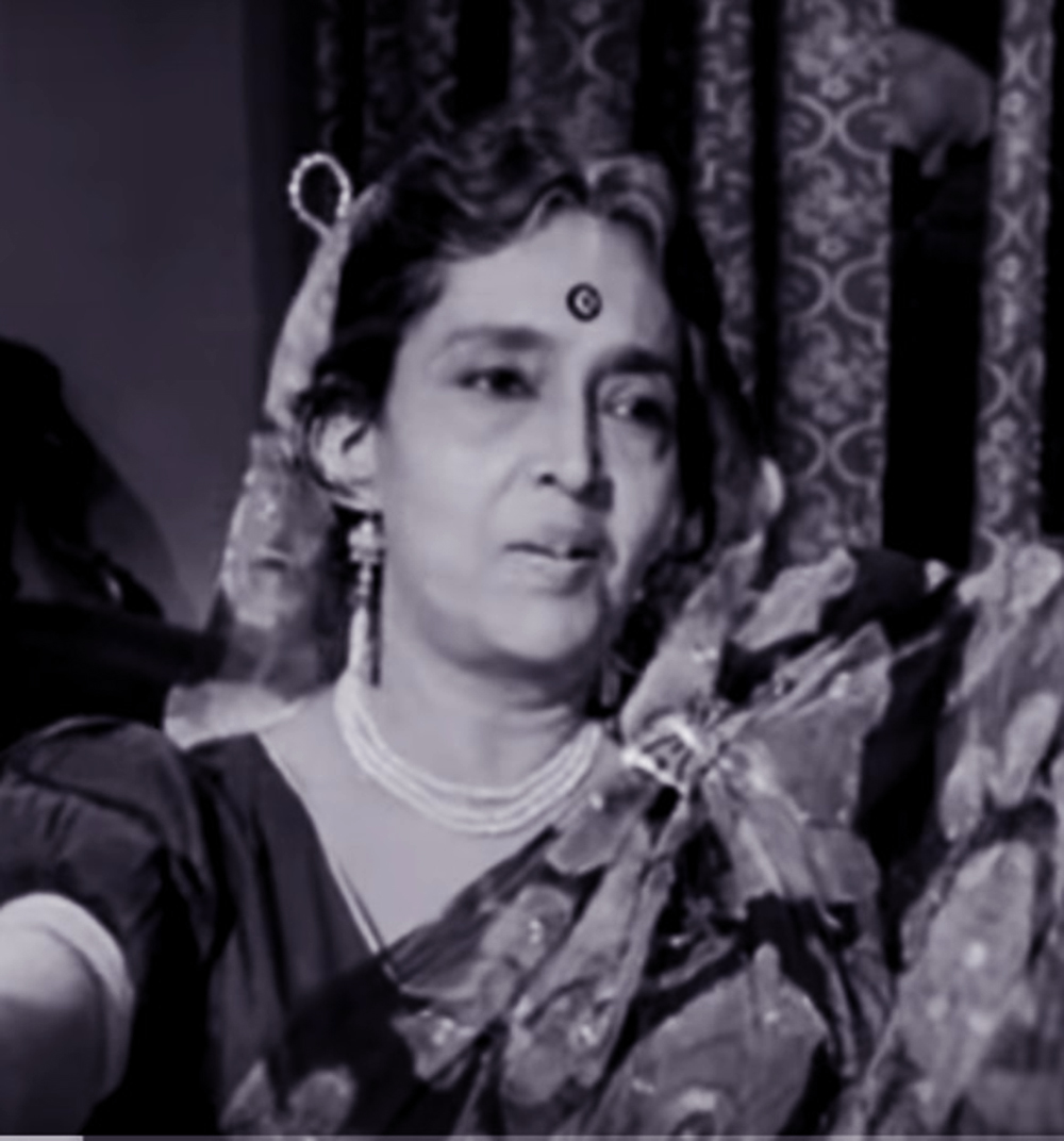 Chhaya Devi in Harmonium